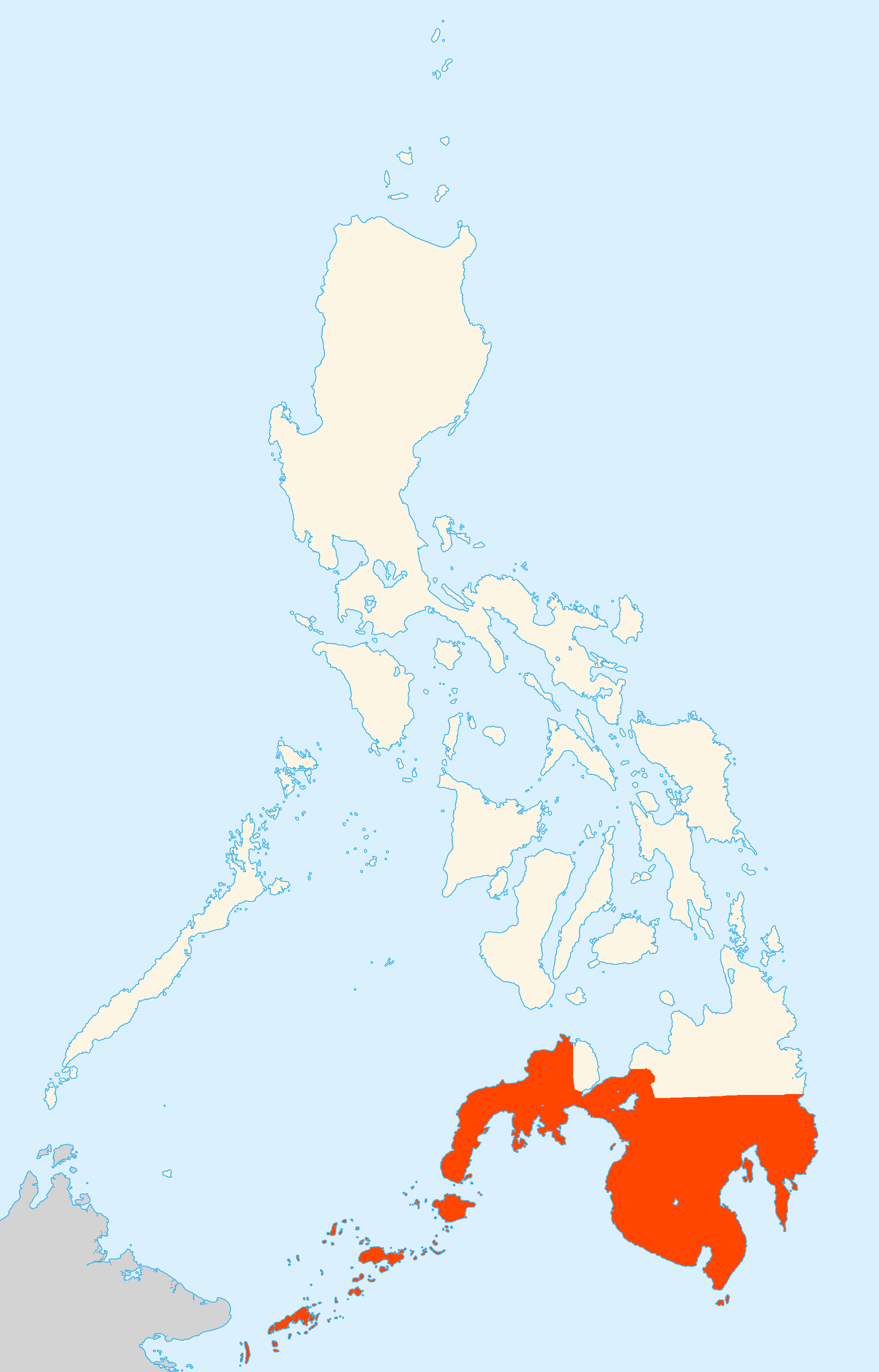 Map of the Philippines showing the location of the historical Moro Province. Modern provincial boundaries in white.